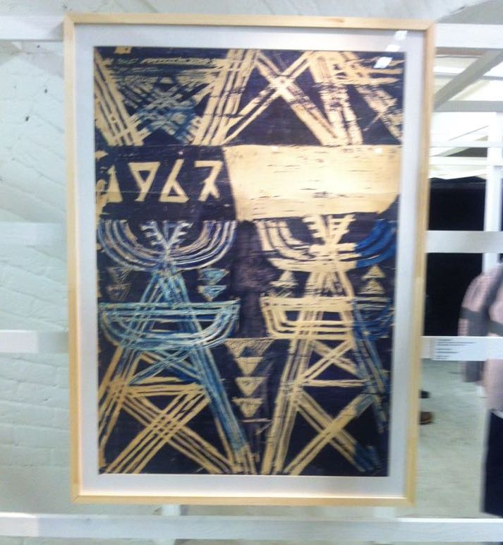 Anna Andreeva "Electrification" textile design at the exhibition "The Thaw", Museum of Moscow, 2017.